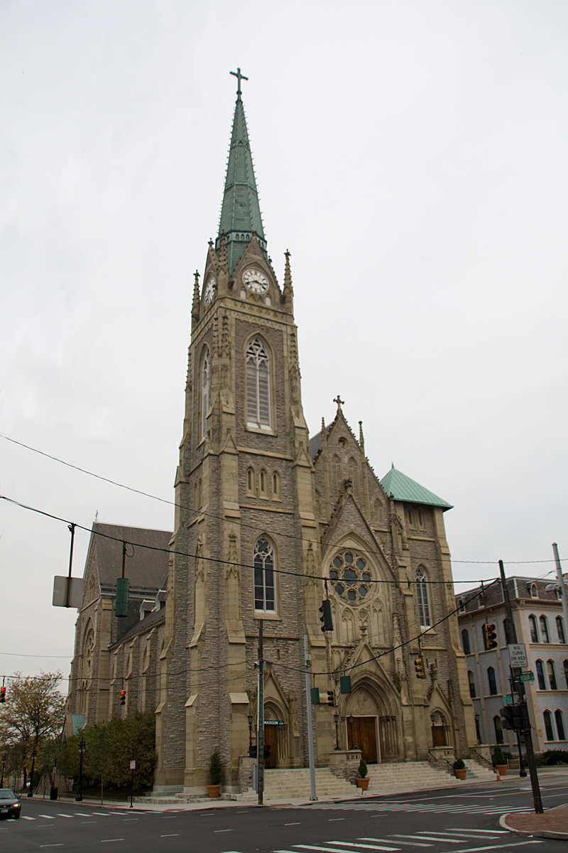 St. Francis De Sales Church in Cincinnati, OH. Photo by Greg Hume.